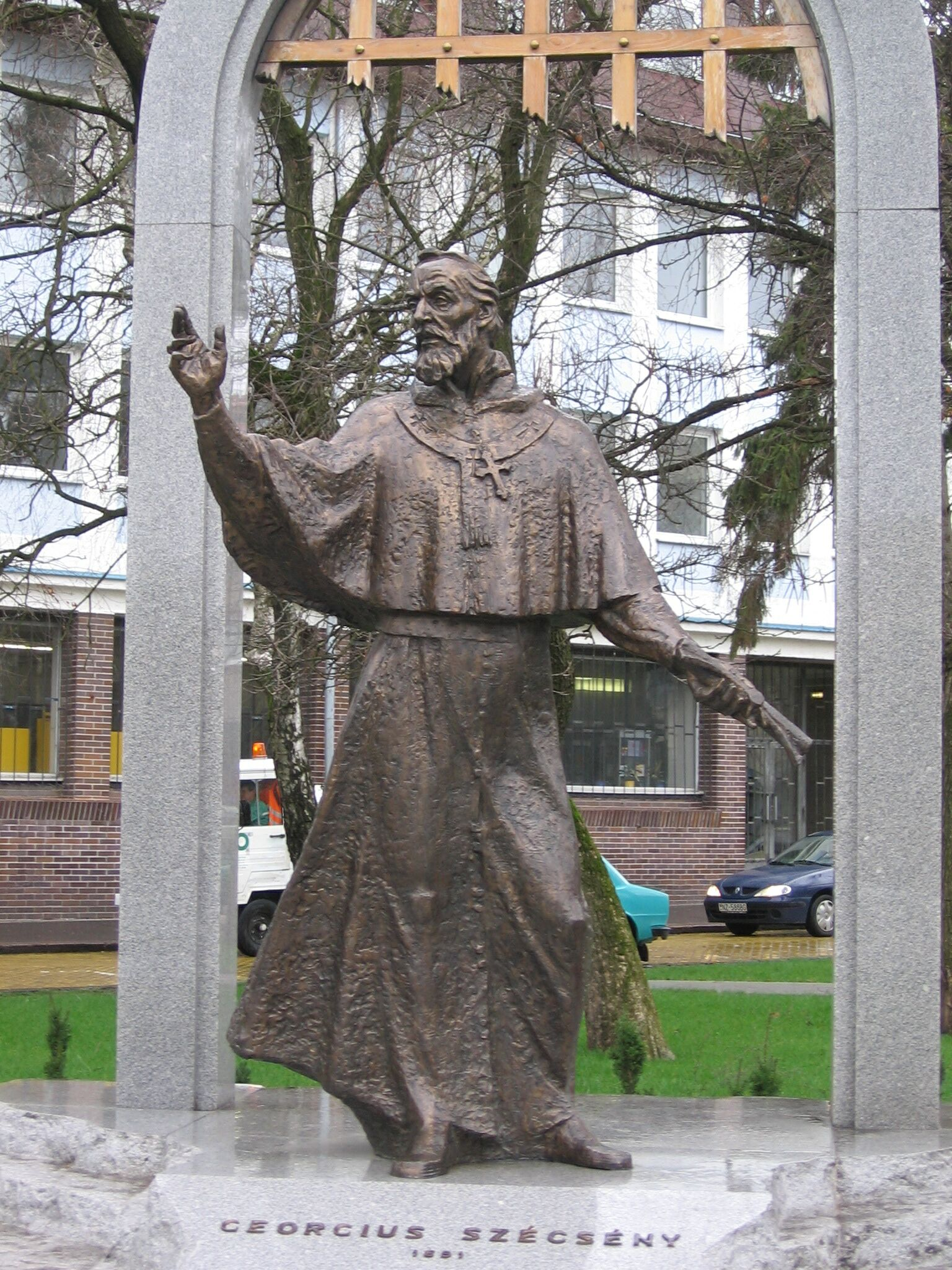 Statue of archbishop of Esztergom George Széchényi